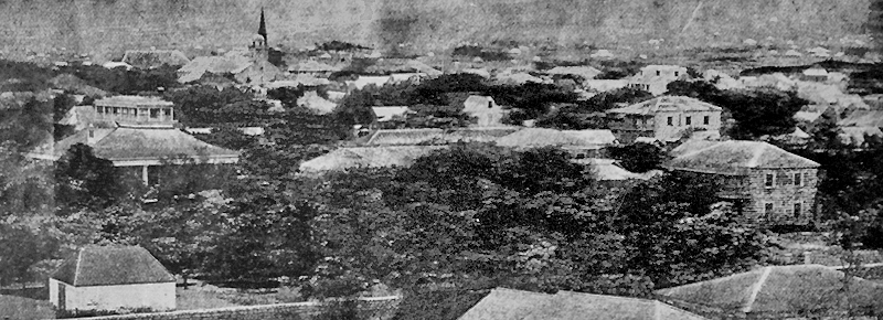 Pohukaina with the Iolani Palace to the left and Kanaina's brick house to the right